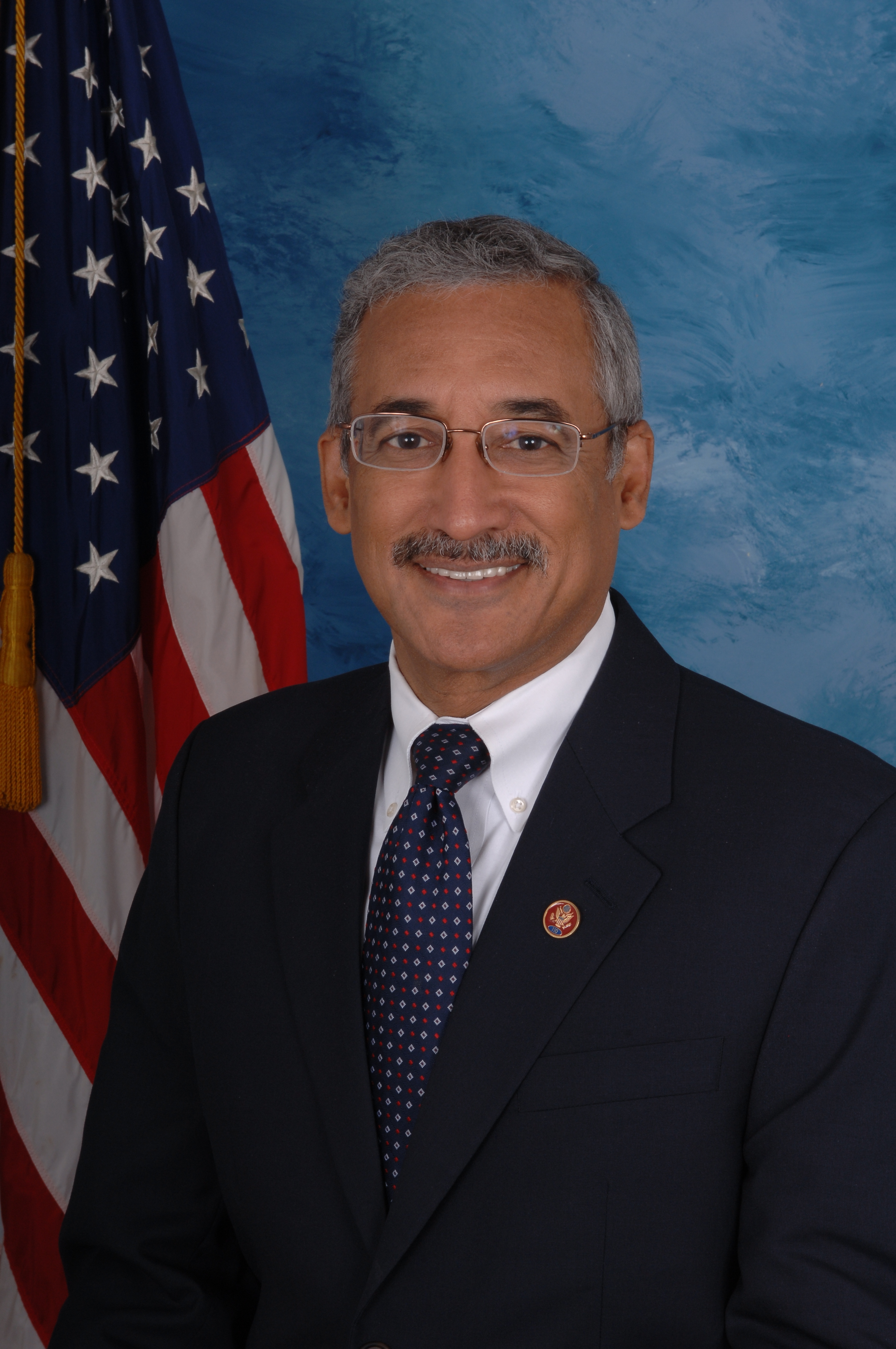 Robert C. Scott, member of the United States House of Representatives.